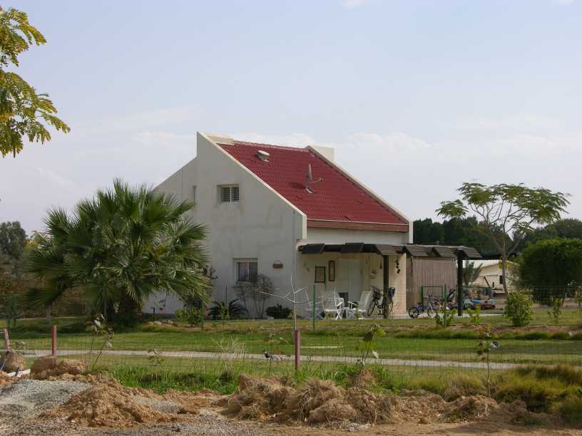 Hatzeva